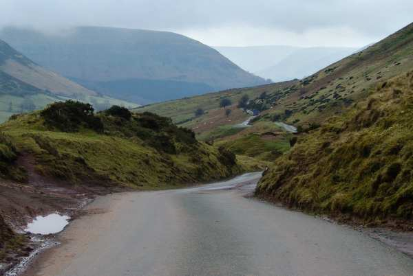 Gospel Pass. Vale of Ewyas in the background